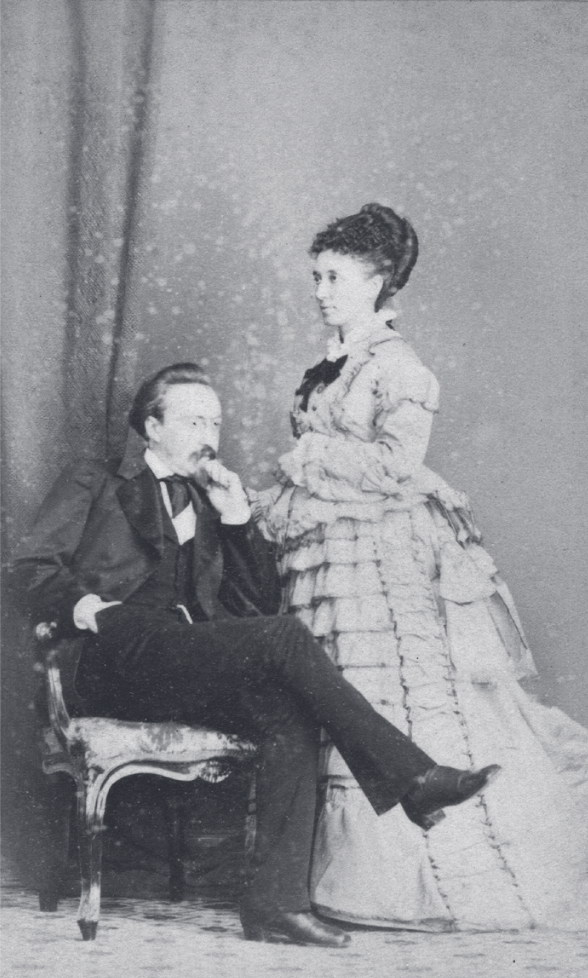 Manuel de Arriaga (1840–1917) and his wife Lucrécia de Arriaga (1844–1927) in the late 19th-century. They would become the first President of the Portuguese Republic and the first First Lady of the country, respectively, in 1911.